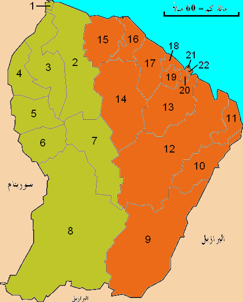 Originally uploaded to English Wikipedia by User:Godefroy with the following licence